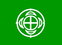 Flag of Takko Aomori